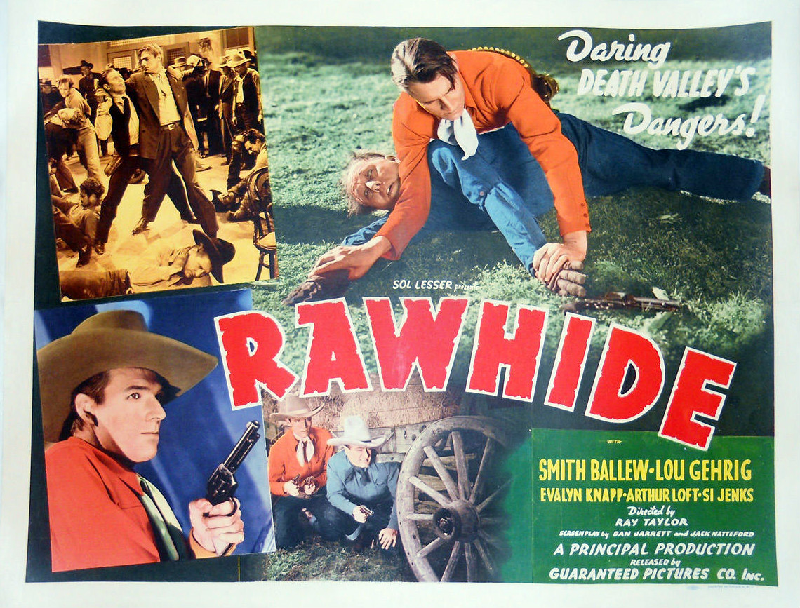 Poster for the 1938 film Rawhide. New York Yankees baseball star Lou Gehrig is the star.